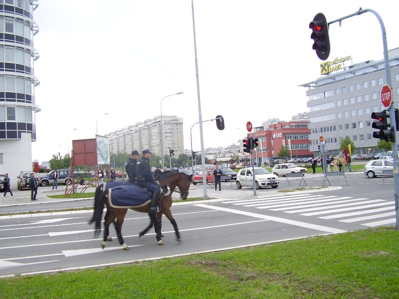 Typic New-Beograd crossing